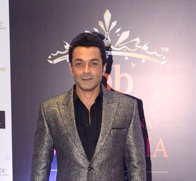 Bobby Deol